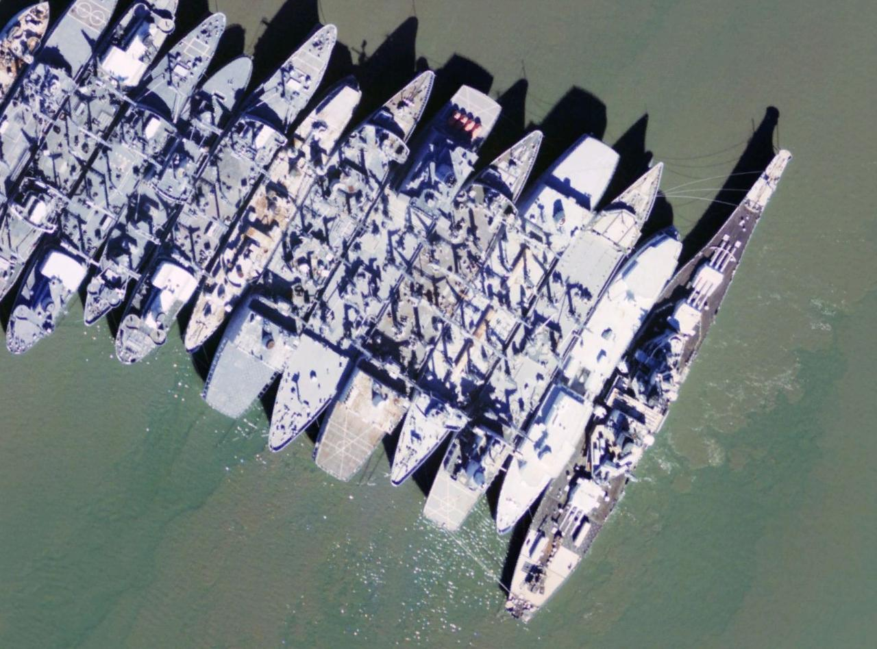 Closeup of ships of the US National Defense Reserve Fleet laid-up in Suisun Bay, California (USA). The following ships are visible (left to right): USS Wahkiakum County (LST-1162) (bow only visible), removed 24 August 2005 and scrapped, USNS Mispillion (T-AO-105), scrapped 2012; USNS Hassayampa (T-AO-145), scrapped 2014; USNS Kawishiwi (T-AO-146), scrapped 2014; USS Pyro (AE-24), scrapped 2012; USNS Ponchatoula (T-AO-148), scrapped 2014; USS Nereus (AS-17), scrapped 2012; USS Wichita (AOR-1), scrapped 2013; USS Kansas City (AOR-3), scrapped 2014; USS Roanoke (AOR-7), scrapped 2013; USS Wabash (AOR-5), scrapped 2013; USS Cimarron (AO-177), scrapped 2012; USS Proteus (IX-518/AS-19), scrapped 2007; USS Iowa (BB-61), museum ship in Los Angeles, California (USA), since 2011.